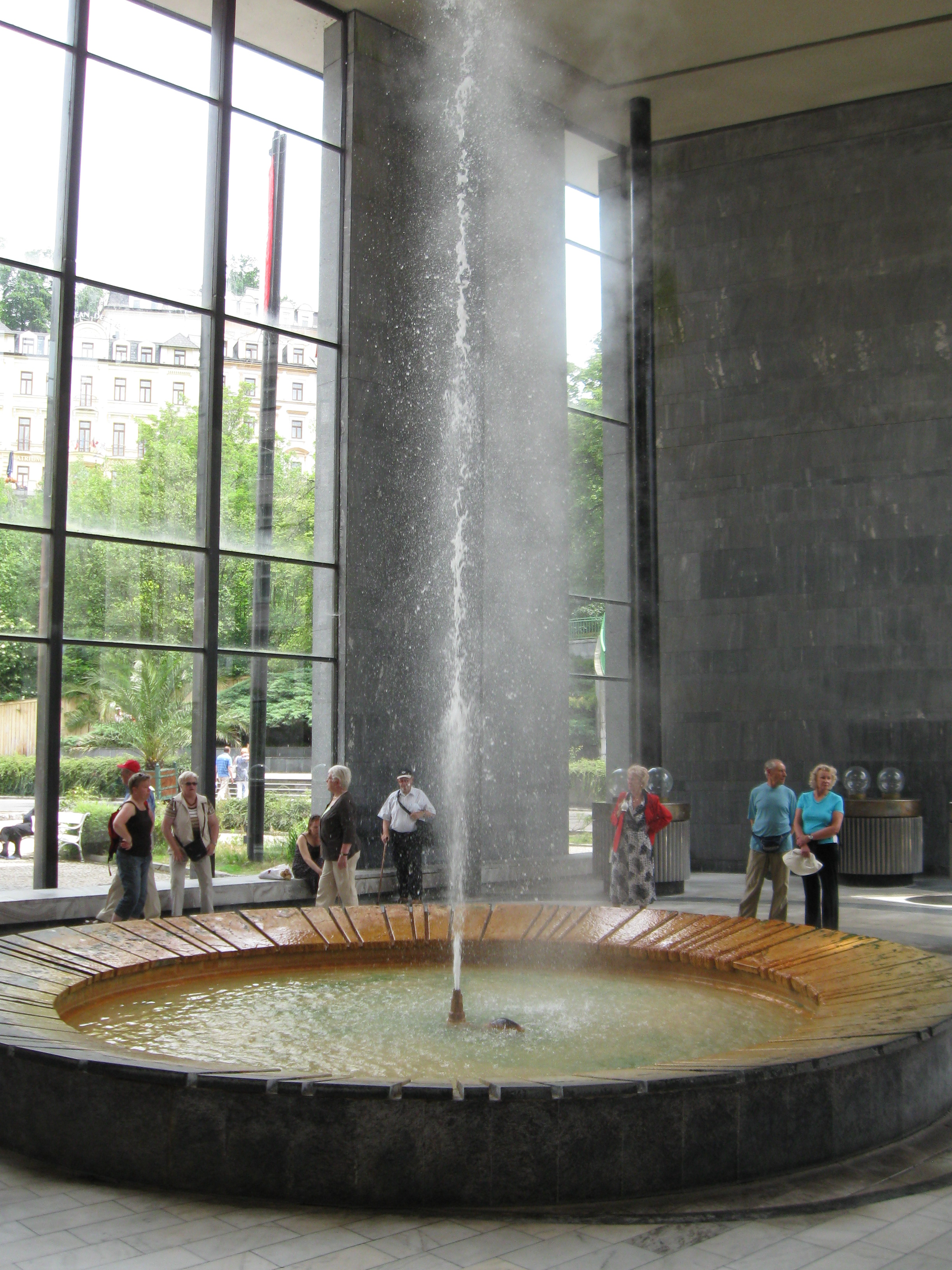 Geyeser, Karlovy Vary, Czech Republic.